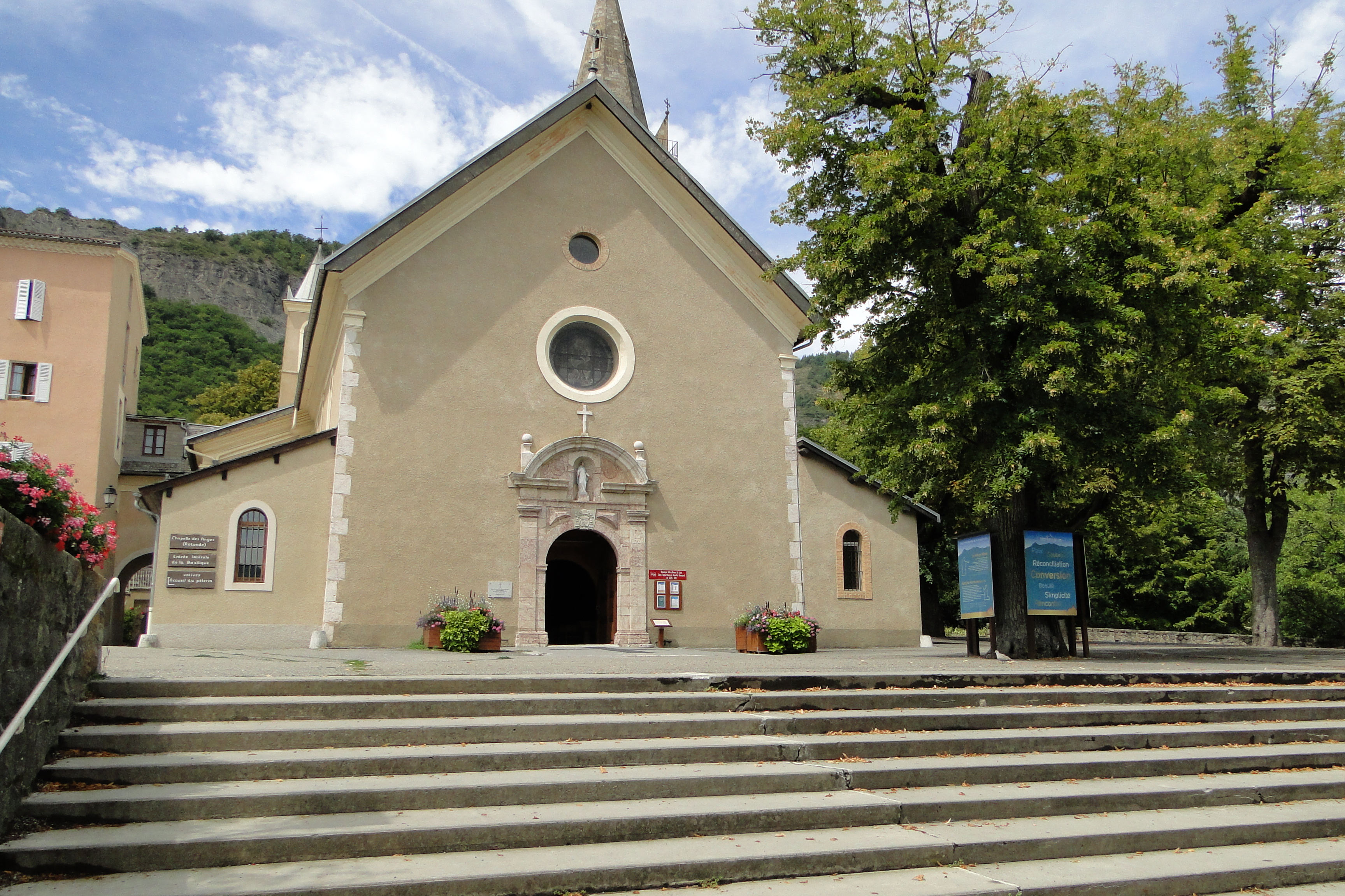 Façade of Notre Dame du Laus